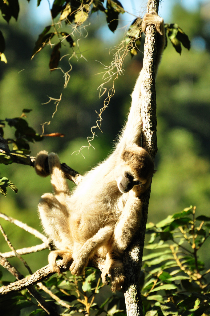 An adult northern muriqui (woolly spider monkey), Brachyteles hypoxanthus, in the Atlantic Forest, Brazil. This photo was taken in Santa Maria de Jetiba, Espirito Santo, using a Nikon D90. Original description: "Brachyteles hypoxanthus, northern muriqui, woolly spider monkey, muriqui-do-norte."